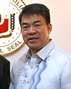 Senate President Aquilino “Koko” L. Pimentel III receives His Excellency Kim Jae-Shin, Ambassador of the Republic of Korea to the Philippines, during a courtesy call at the Senate of the Philippines on 10 August 2016. Ambassador Kim congratulated the Senate President on his election and expressed his country’s desire to expand its bilateral relations with the Philippines. The Senate President, likewise, thanked the Ambassador for South Korea’s support for the Philippines’ new leadership and for continuing its partnership in the country’s over-all development. Pimentel also expressed his interest to learn from South Korea’s experiences specially in rural development.